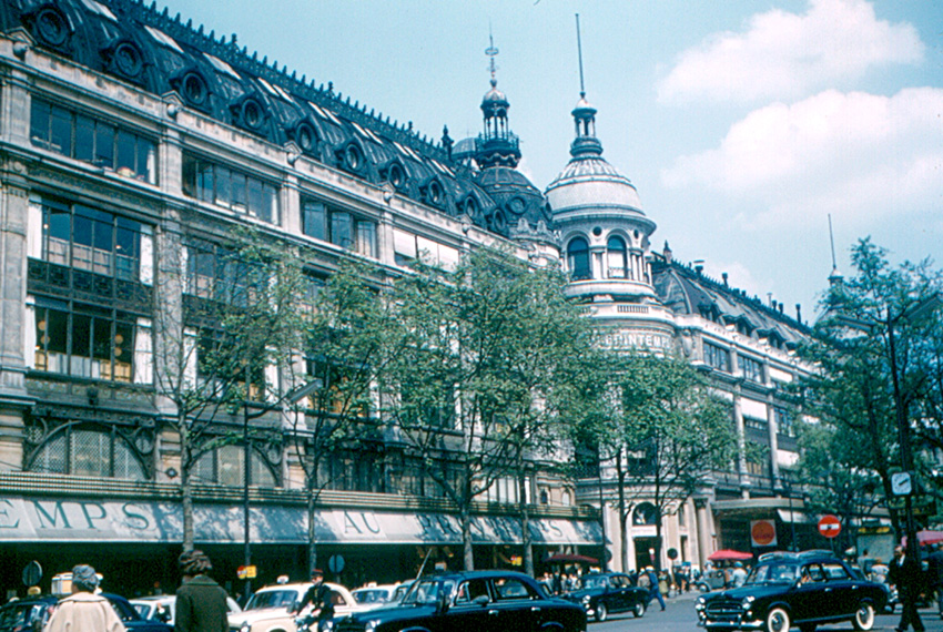 Printemps